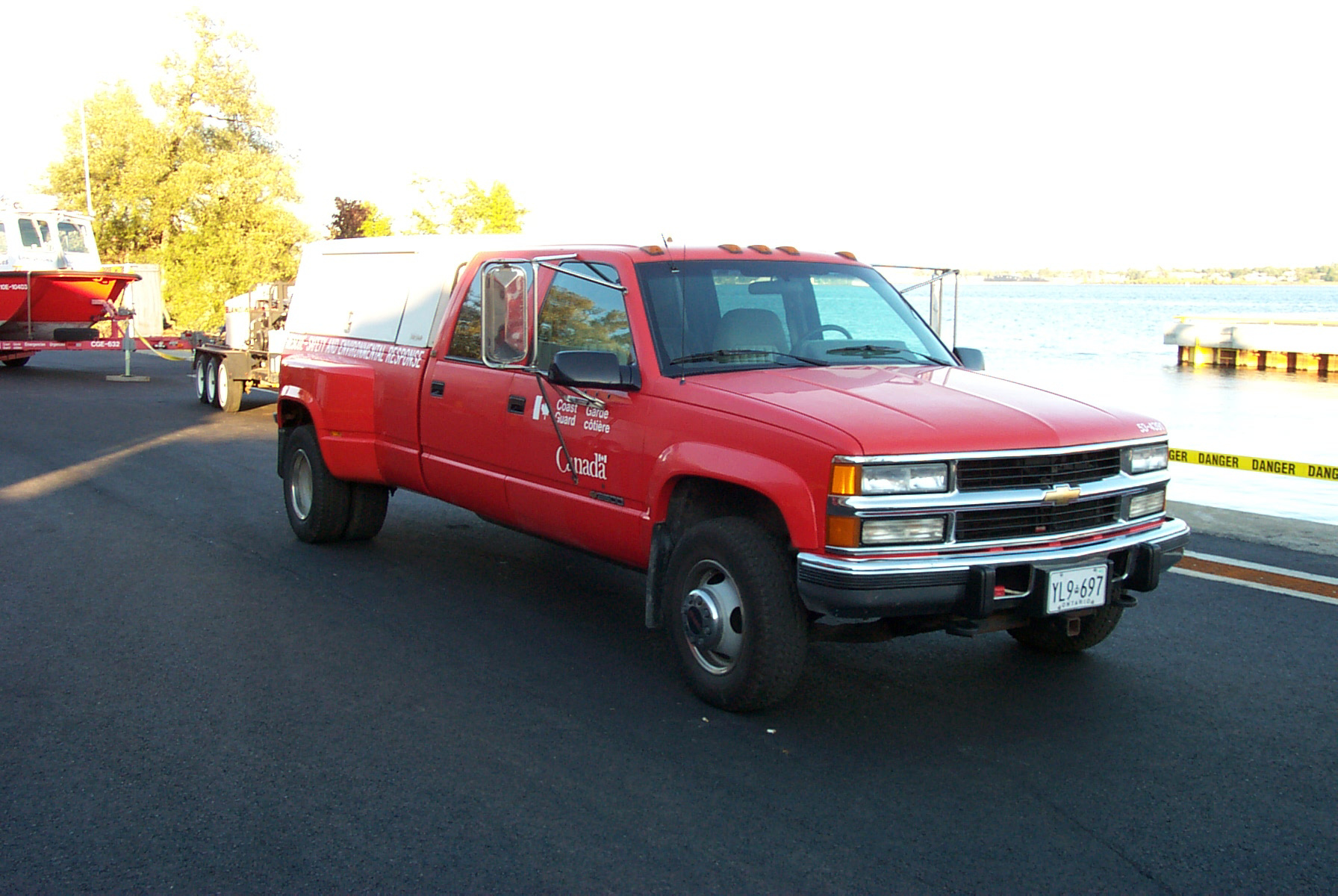 Typical CCG Emergency Response Vehicle